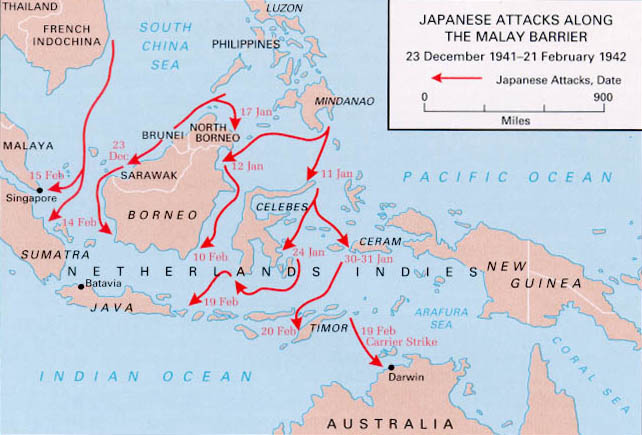 Japanese Attacks Along the Malay Barrier, 23 Decenber 1941 - 21 February 1942